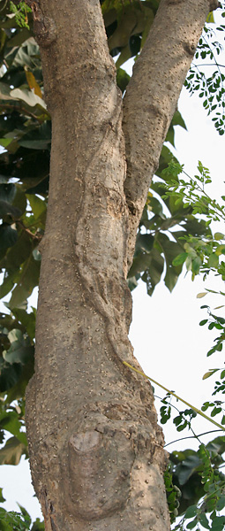 Sonjna Moringa oleifera in Kolkata, West Bengal, India.